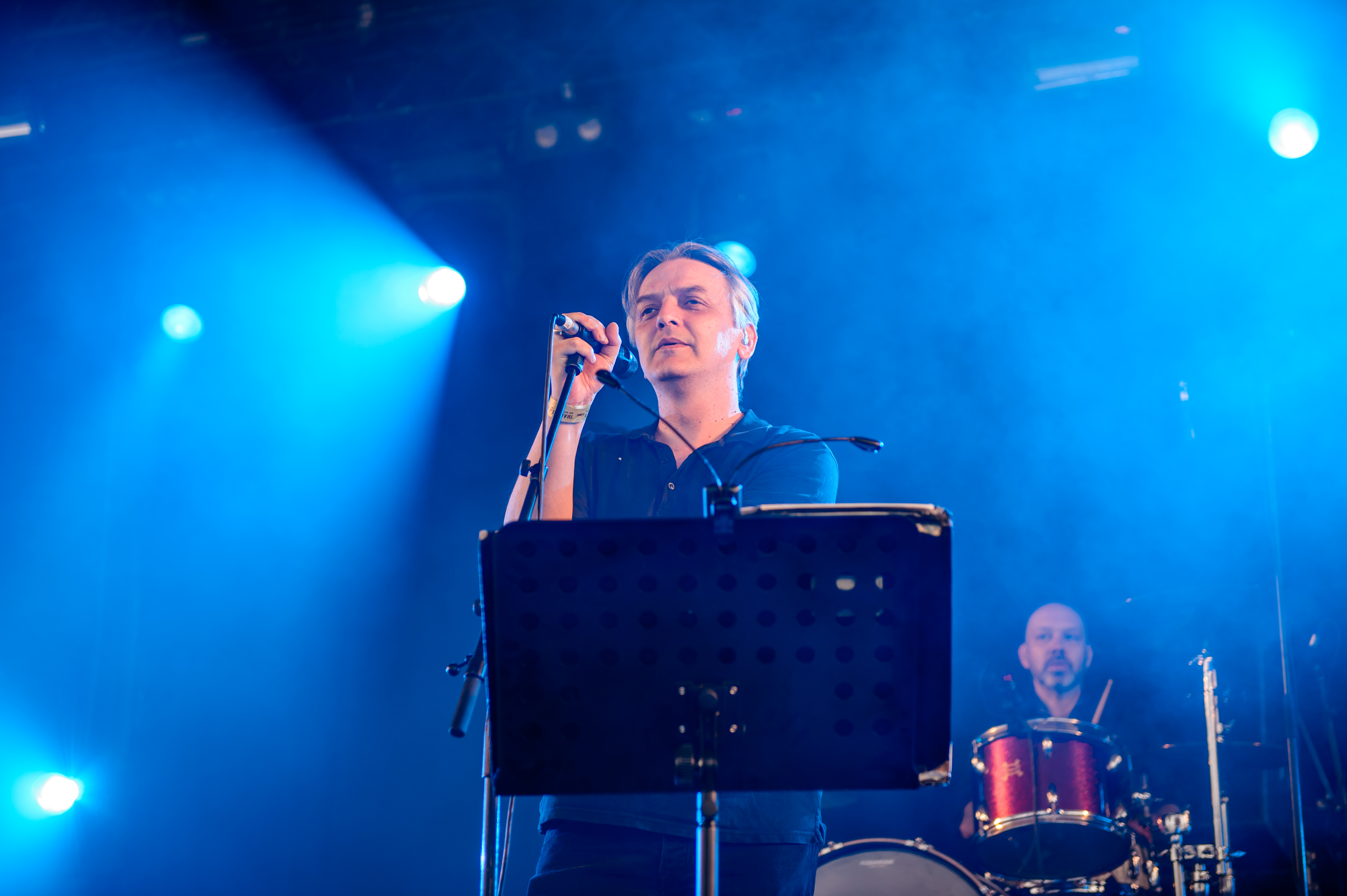 Peter Heppner; Amphi festival 2016